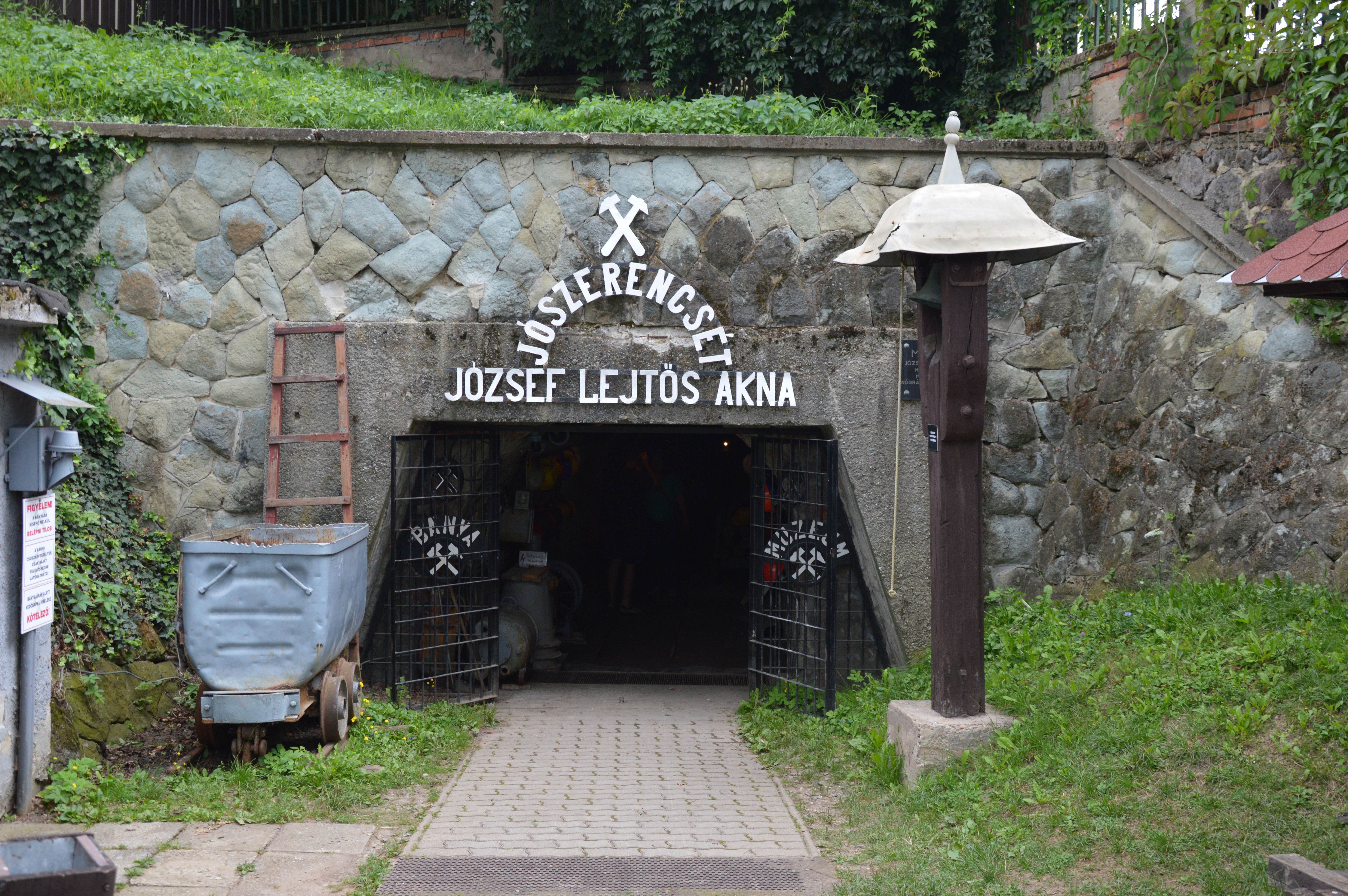 Salgótarján mining museum